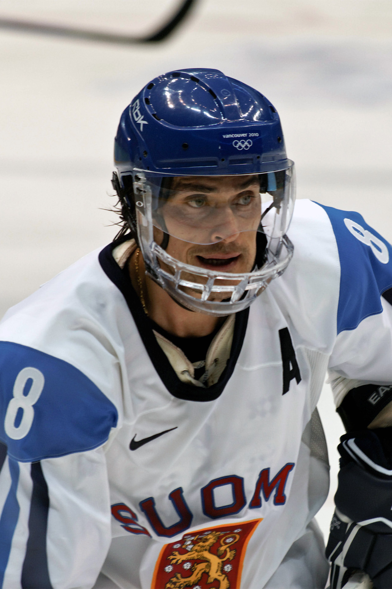 Finland forward Teemu Selanne in action against Germany during the 2010 Winter Olympics